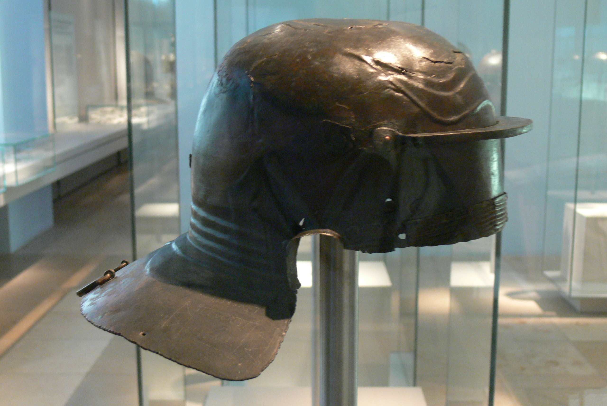 German National Museum ( Nuremberg / Germany ). Ancient Roman bronze infantery helmet, Weisenau type, 1st century AD, found in Rhine river near Mainz. According to an inscription the helmet belonged to Lucius Lucretius Celer, Soldier in the centuria of Gaius Mummius Lolianus of the Legio I Adiutrix.